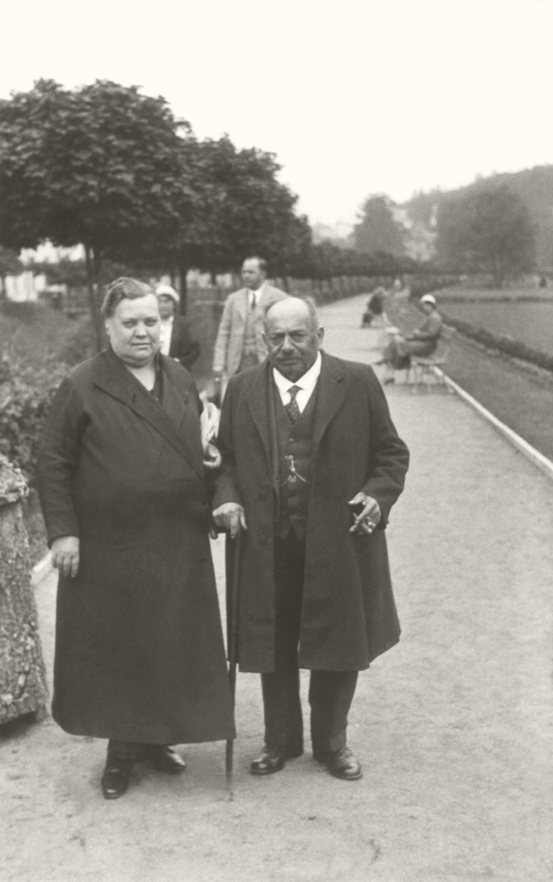 František Brabec and his wife